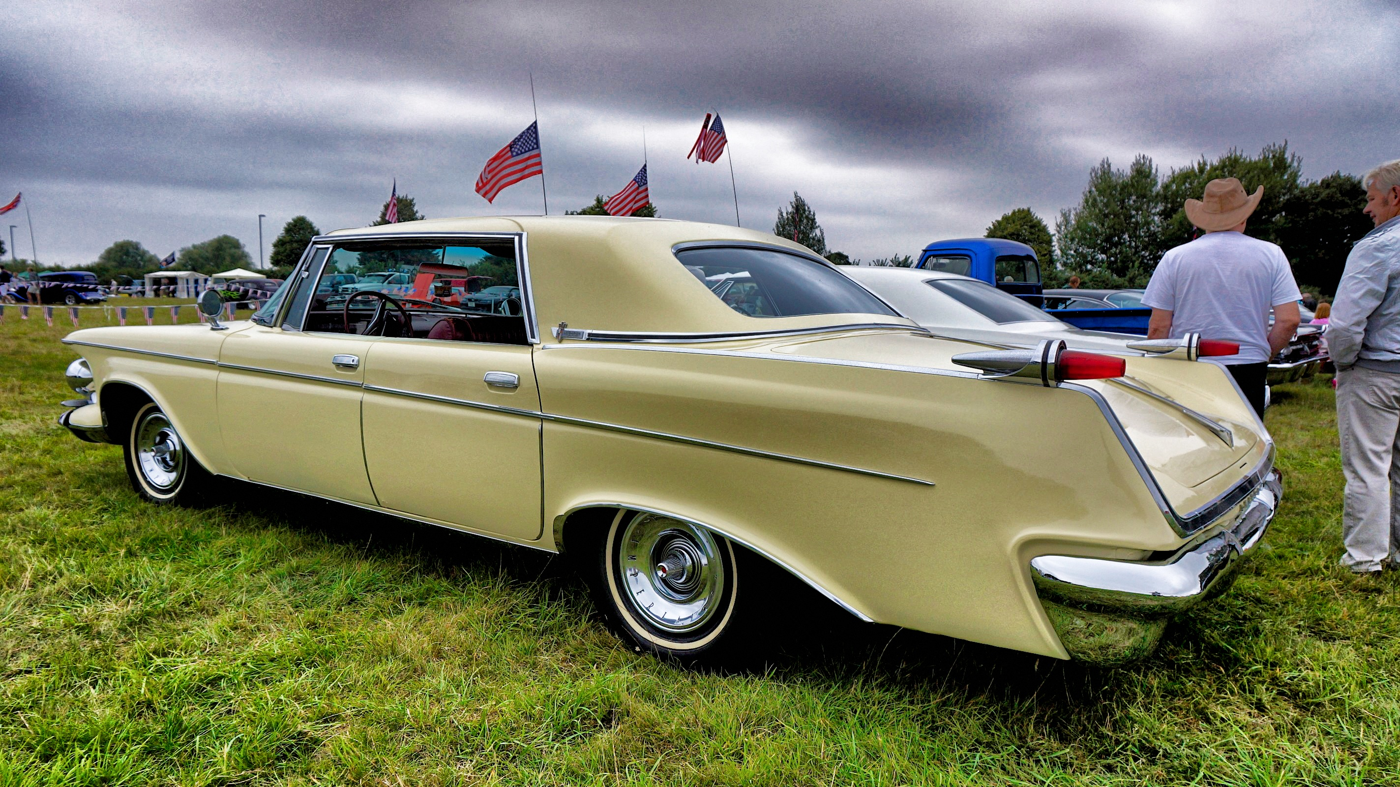 The annual Can-Am Car Club show at Wimborne. A celebration of all things "Automotive and American" plus a few British cars thrown in for good measure. Chrysler Imperial MSU755